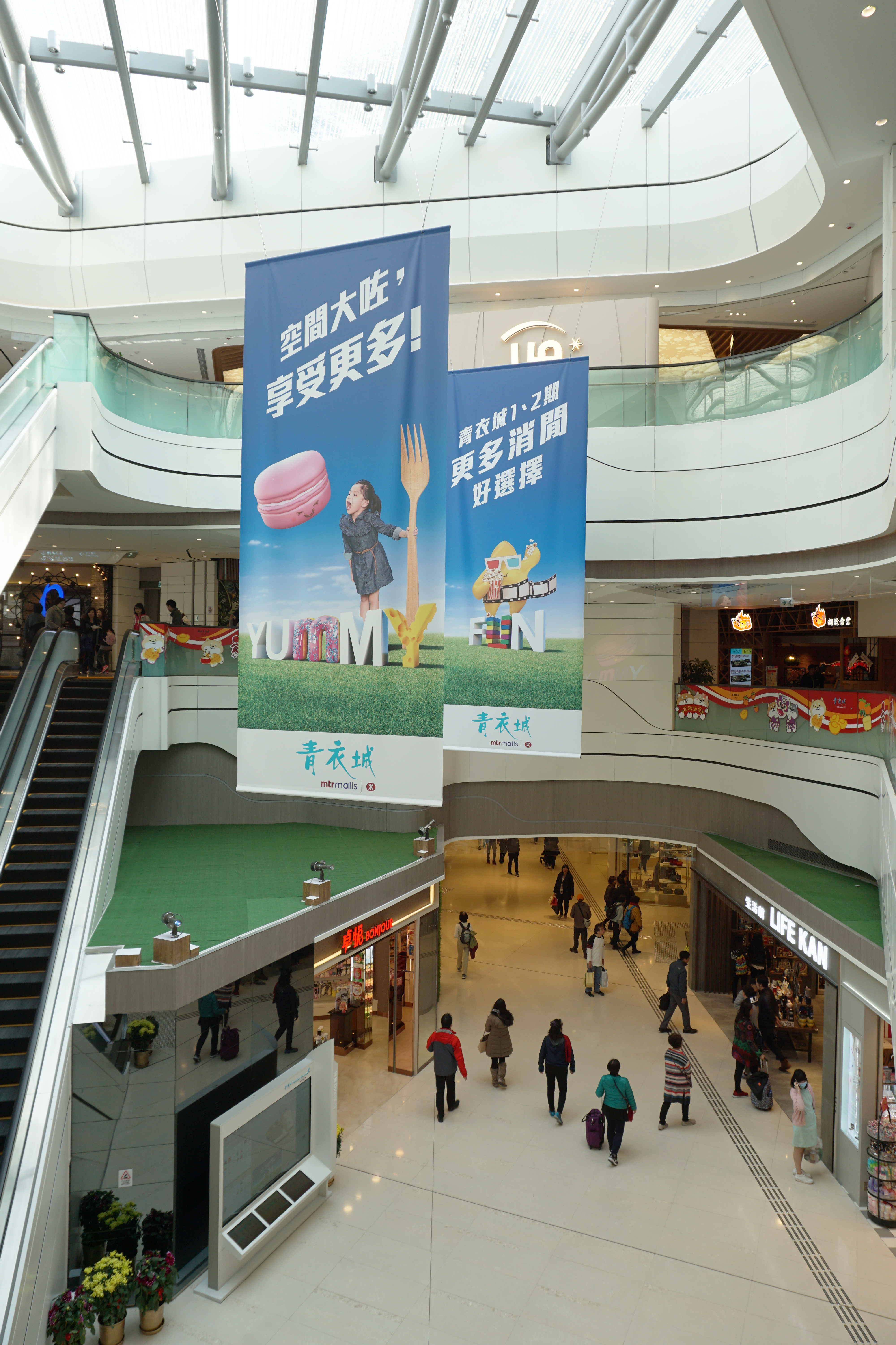 Maritime Square 2 in Tsing Yi, Hong Kong.